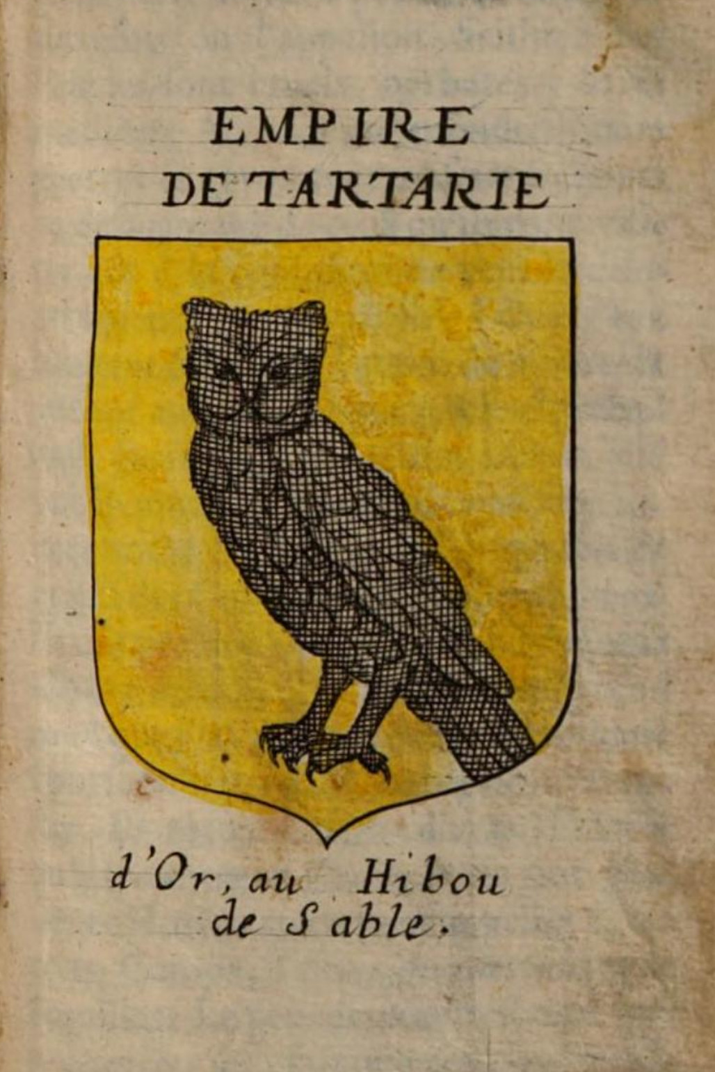 The Coat of Arms of Tartary (Mongols and Tatars area named as this in Europe at this time). « EMPIRE DE TARTARIE : D'Or, au Hibou de Sable » means in french: "Tartary's Empire: From gold, with sand's owl". La Géographie Universelle (1676).